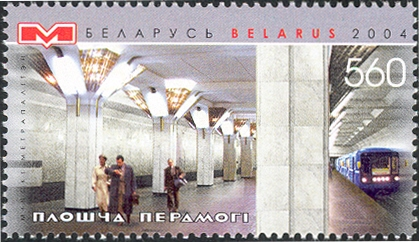 Stamp of Belarus